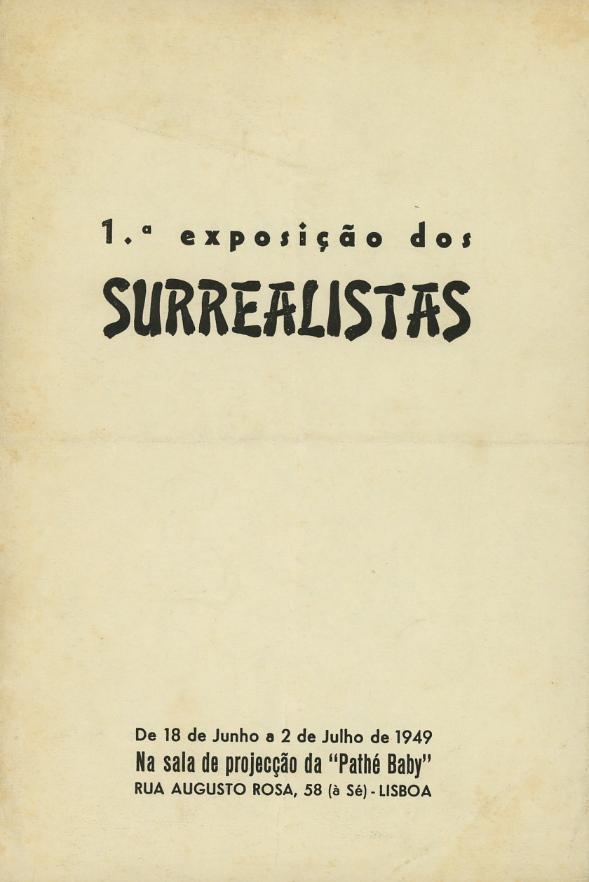 Exhibition catalogue: 1ª Exposição dos Surrealistas, 1949